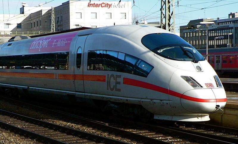 ICE3 train in Ulm